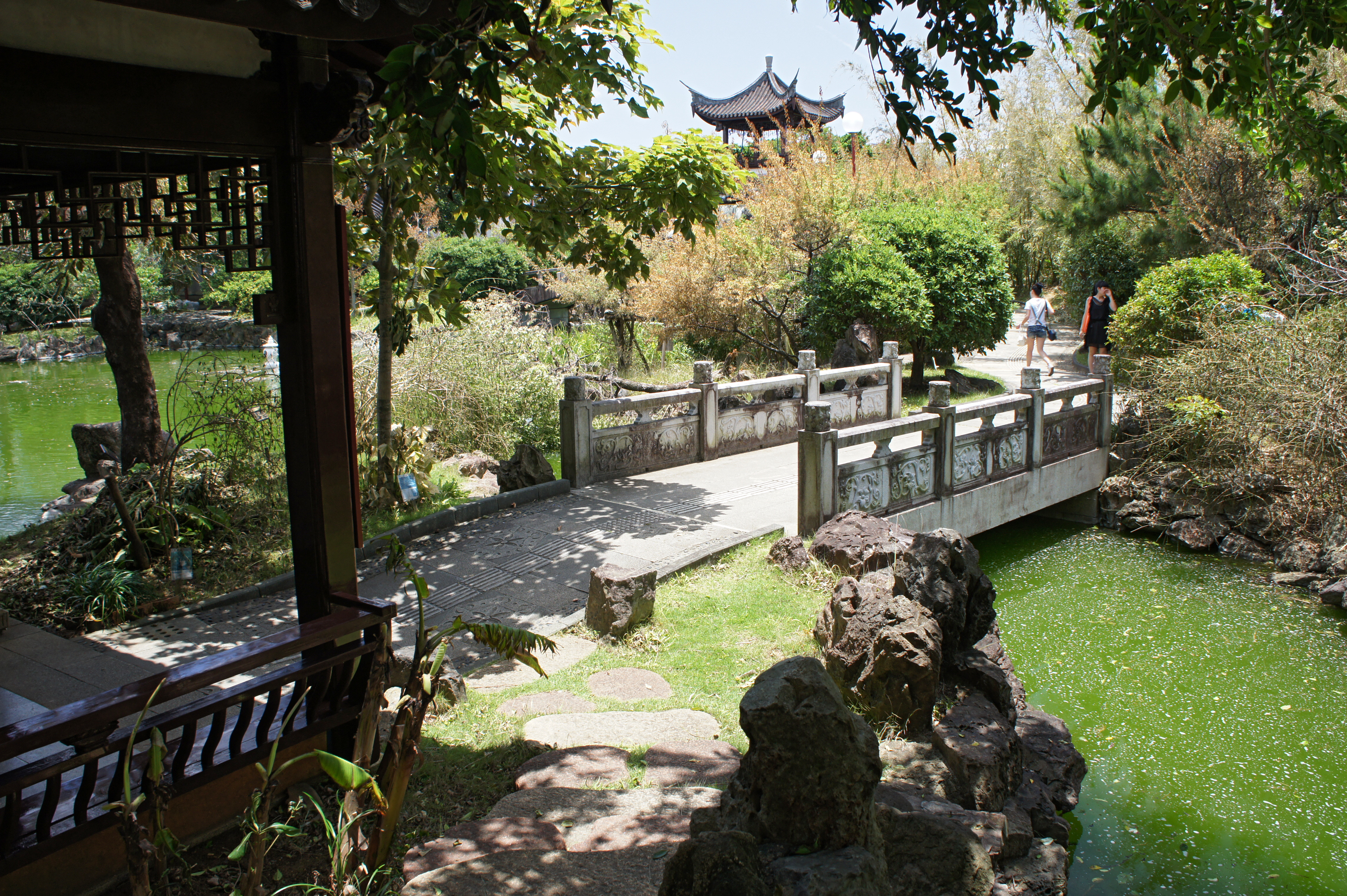 Fukushu-en in Naha, Okinawa prefecture, Japan.